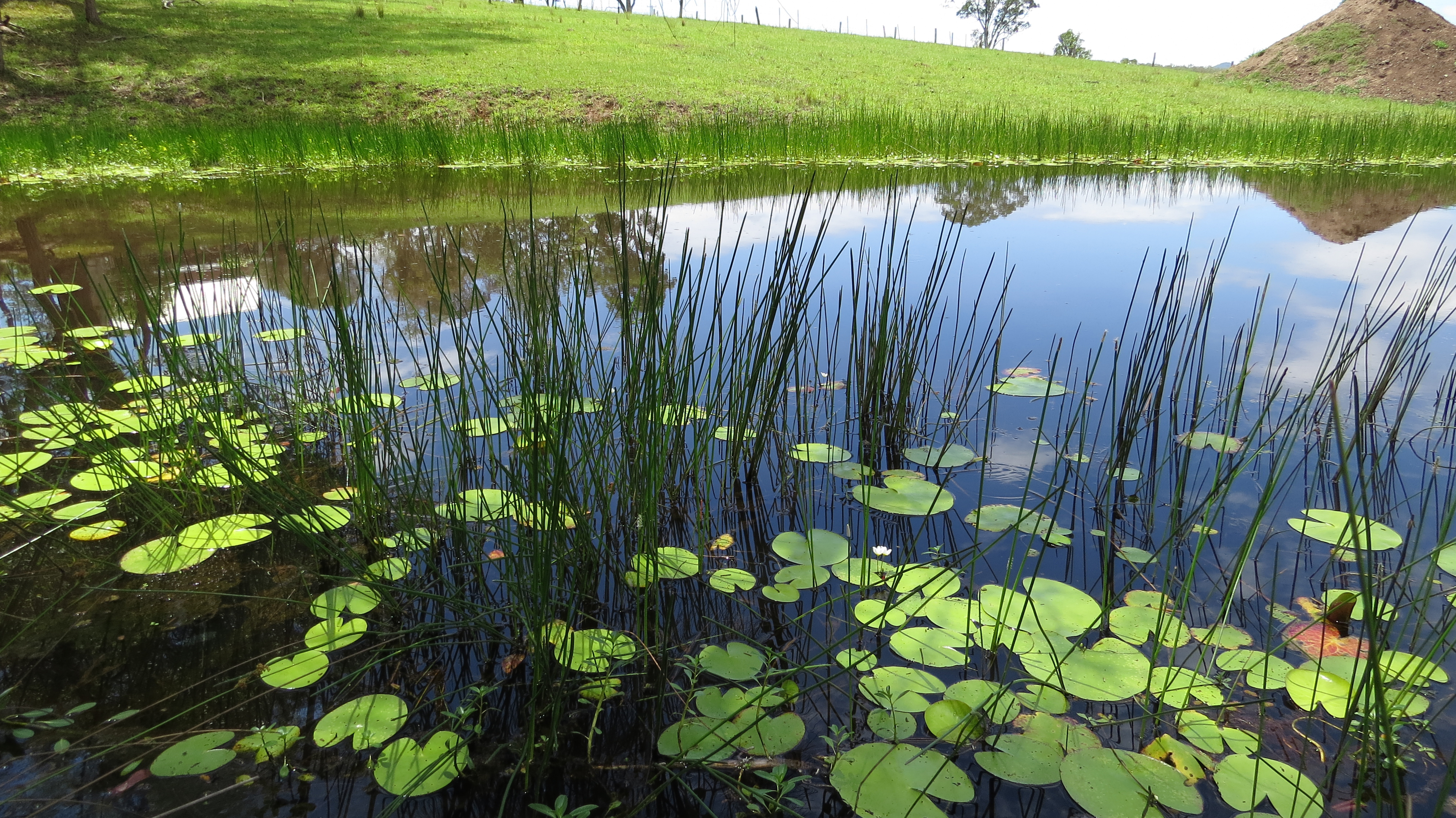 Spike-rush, Eleocharis equisetina, growing at edge of a pond. Turners Flat, NSW, Australia, December 2014.